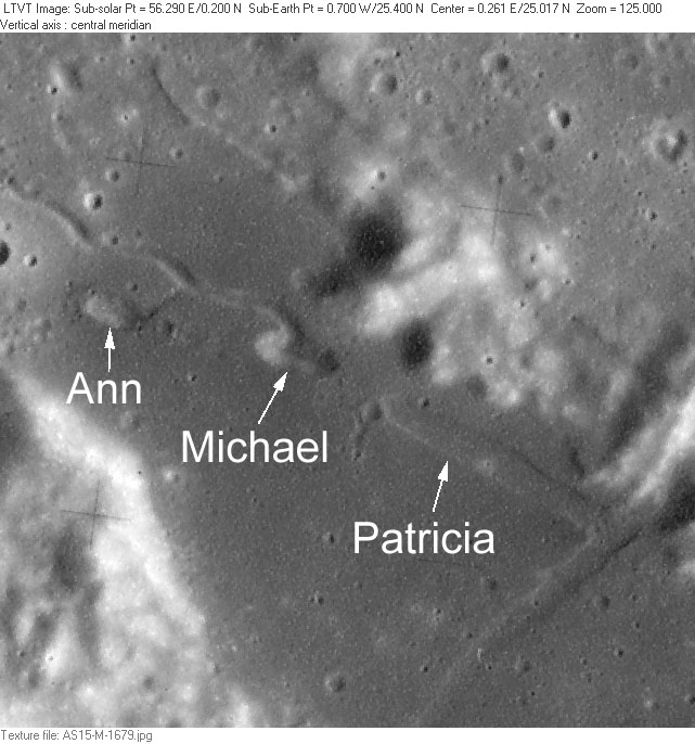 Moon craters Ann, Michael and Patricia. Detail from Apollo 15 metric image AS15-M-1679, remapped to a north-up aerial view by LTVT.